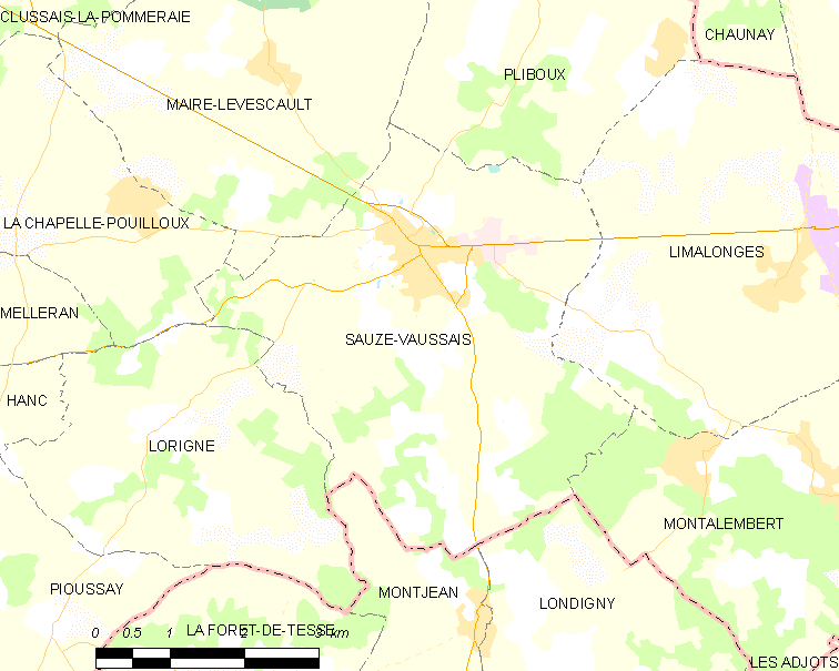 Map of French municipality Sauzé-Vaussais